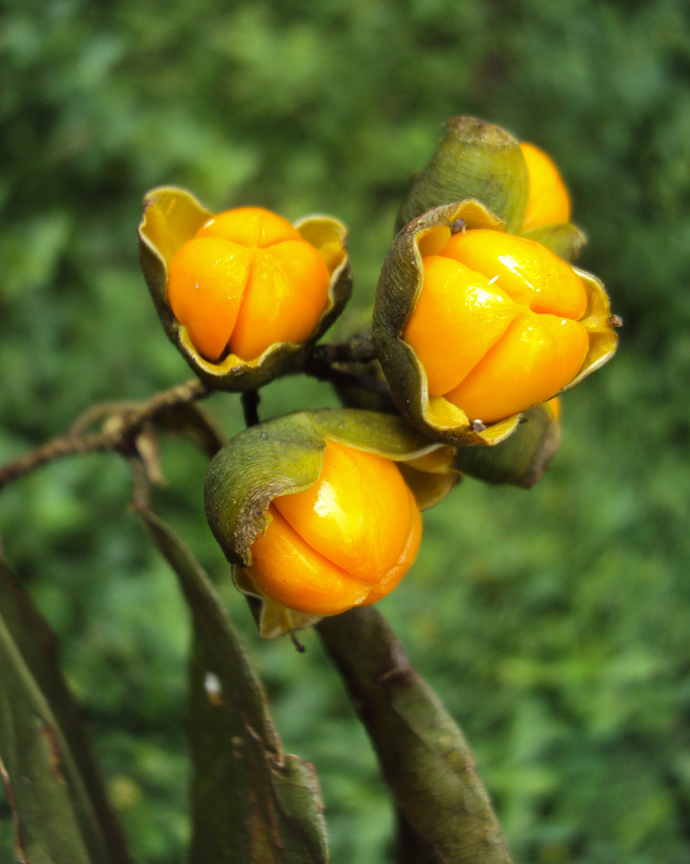 Celastrus paniculatus